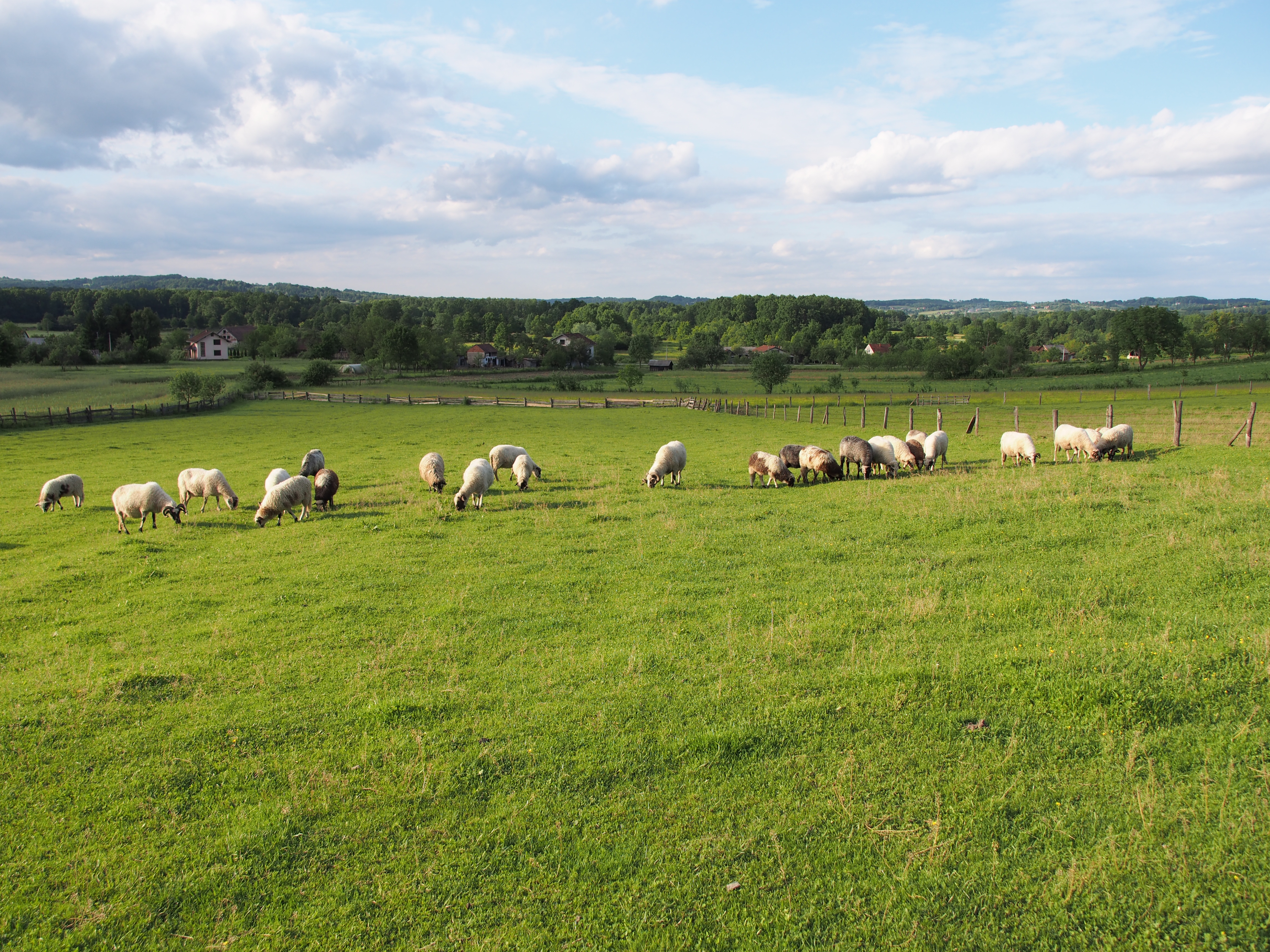 Medjuvodje, Republika Srpska.Српски (ћирилица): Међувође, Република Српска.